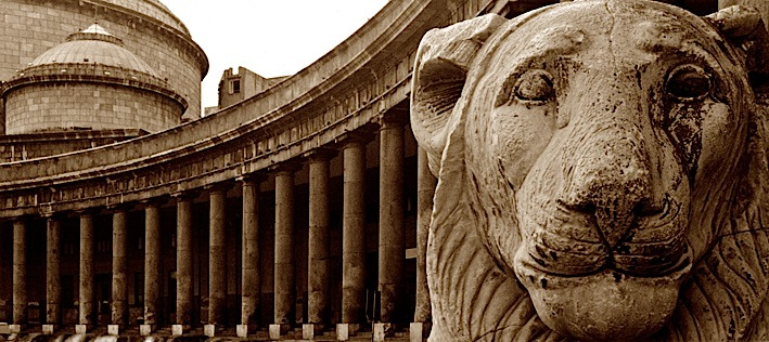 Piazza del Plebiscito, Naples: Leone